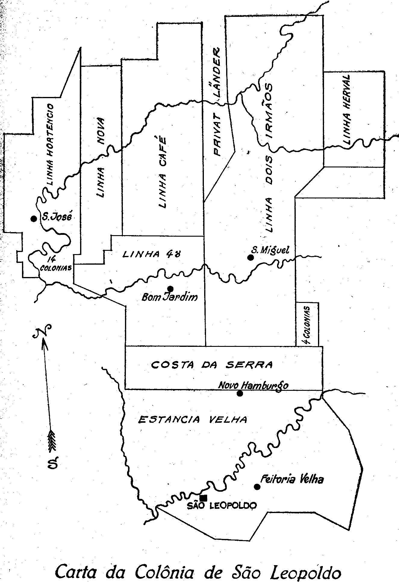 Chart of the Colony of São Leopoldo